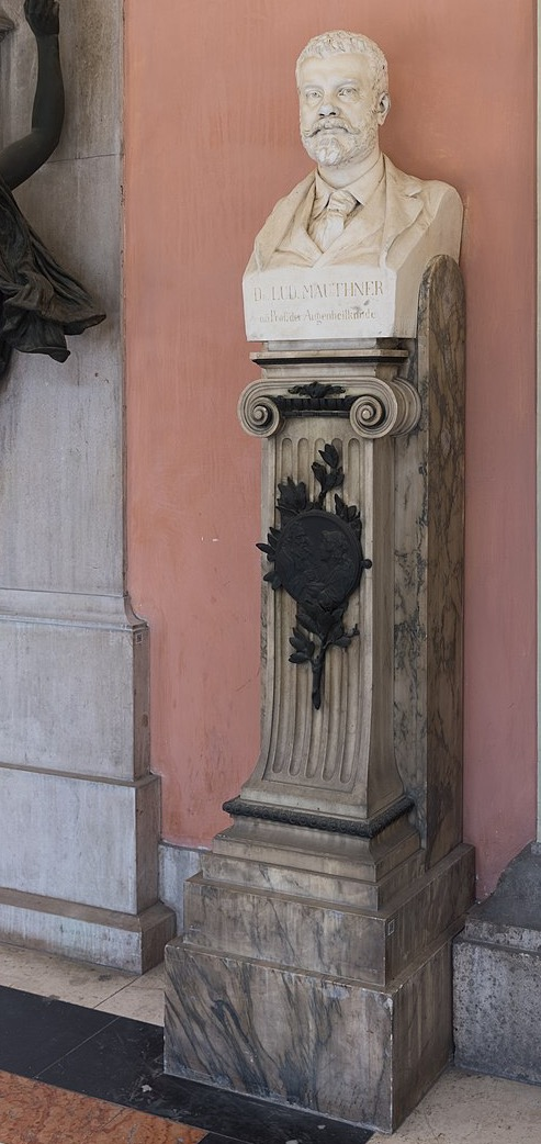 Ludwig Mauthner (1840-1894), physician, bust (marble) in the Arkadenhof of the University of Vienna, (Maisel# 126). Artist: Rudolf Weyr (1847-1914), unveiled 1899